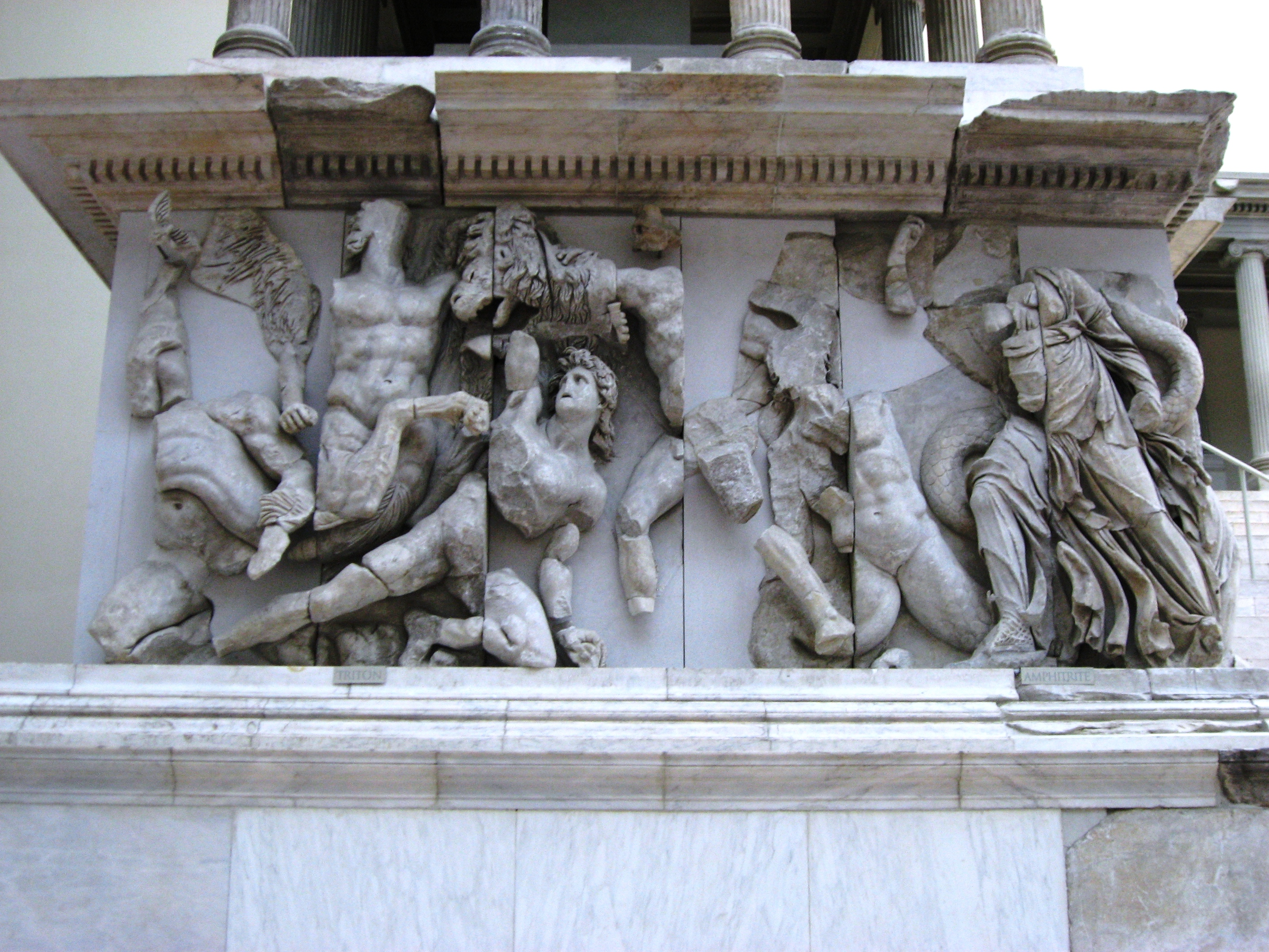 part of the Gigantomachy frieze of the Pergamon Altar. Triton and Amphitrite fighting giants.